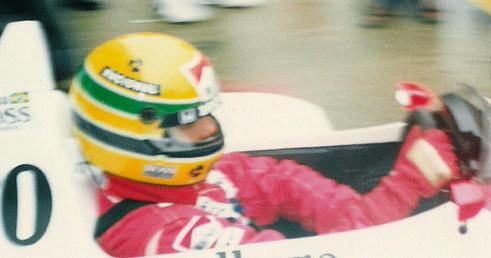 Senna Driving the 1988 McLaren